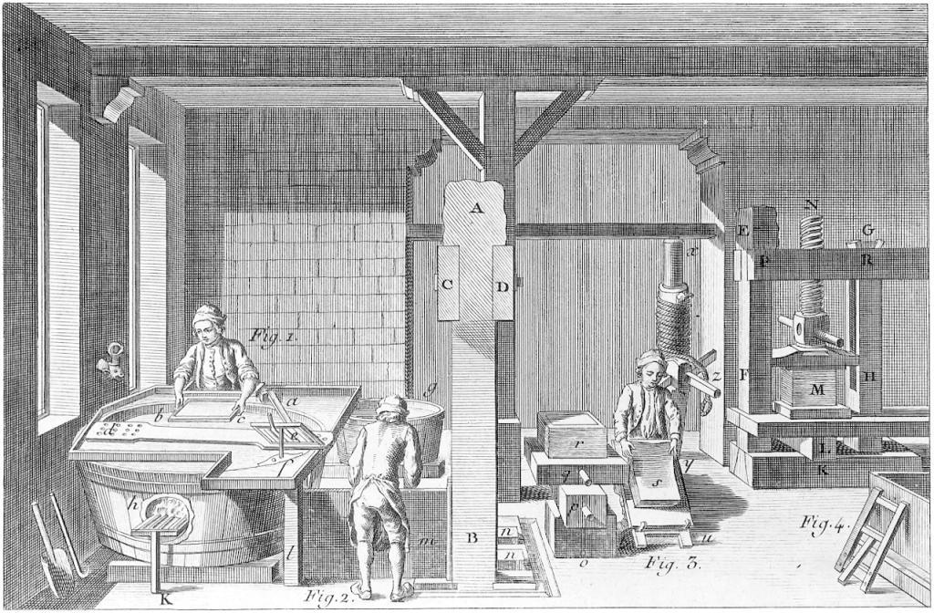 Papermaking. Engraving from Encyclopédie, ou dictionnaire raisonné des sciences, des arts et des métiers